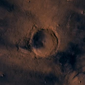 Mars digital-image mosaic merged with color of the MC-13 quadrangle, Syrtis Major region of Mars. The central part is dominated by dark dust and lava flows of the Syrtis Major Planitia region. These lava flows are partly bounded to the east by a large depression, Isidis basin, which contains smooth plains, and to the west and north by heavily cratered and moderately faulted highlands. Latitude range 0 to 30 degrees, longitude range -90 to -45 degrees.